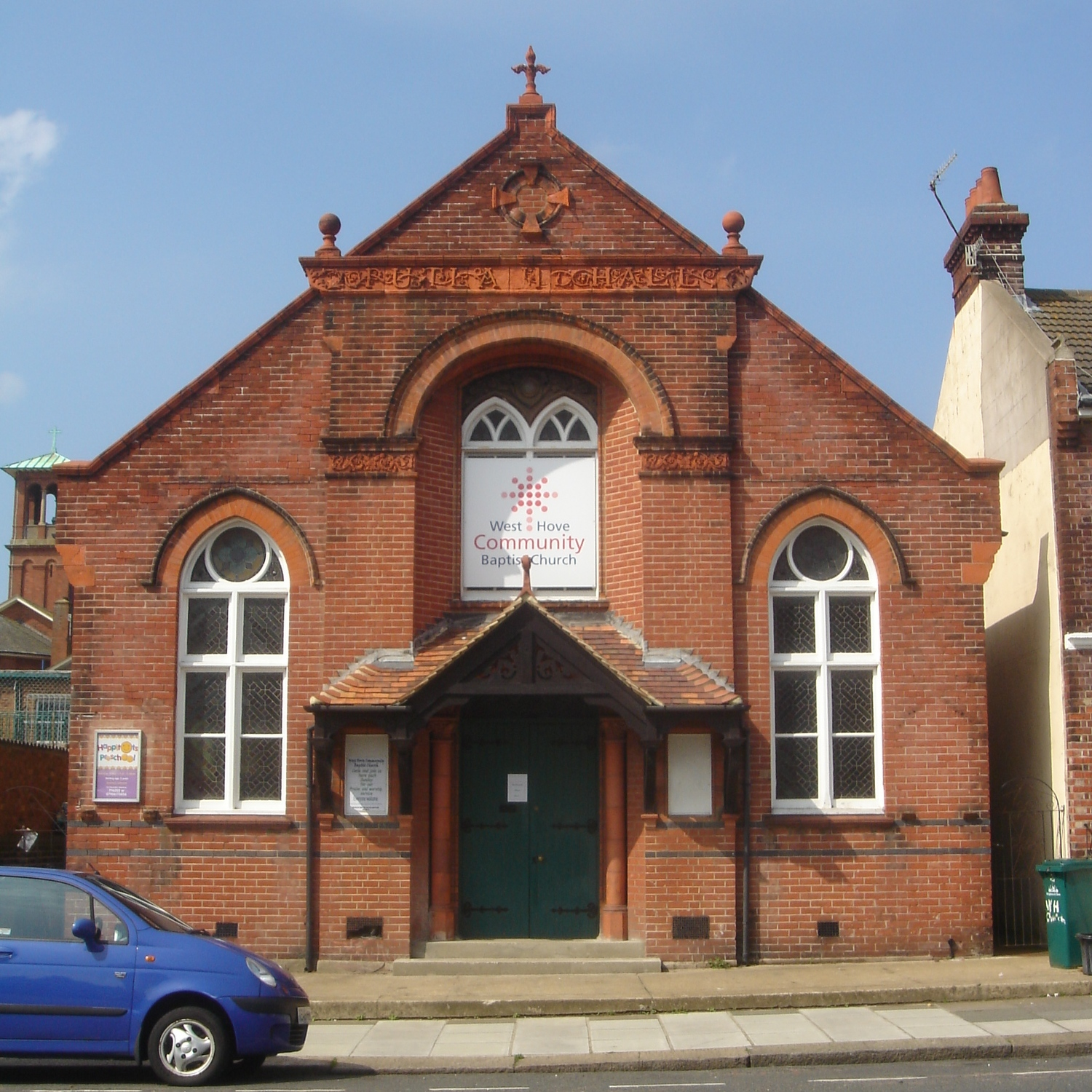 The former Rutland Gospel Hall (now the West Hove Community Baptist Church), Rutland Road, Hove, City of Brighton and Hove, England.